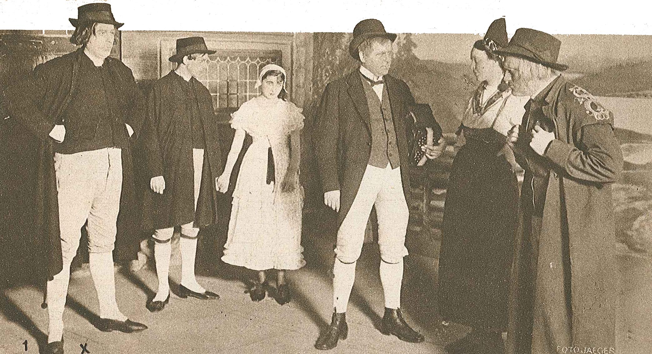 Scene from the Swedish play Bock Anders Ersson och hans pojke at Folkteatern in Stockholm 1916. Actor Paul Hallström (marked with an x) is seen to the extreme left.